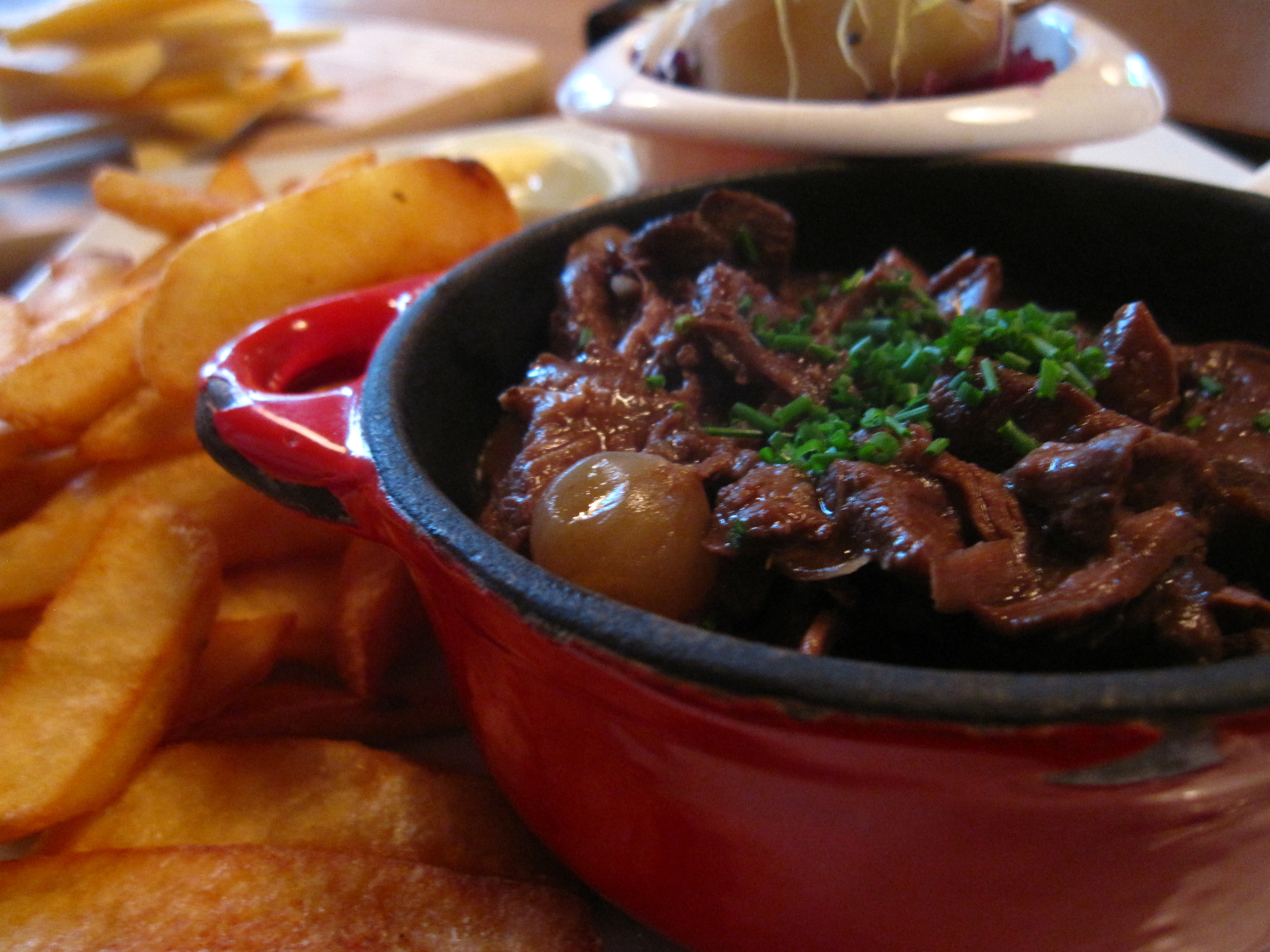 Rabbit stew in the Netherlands, served with fries